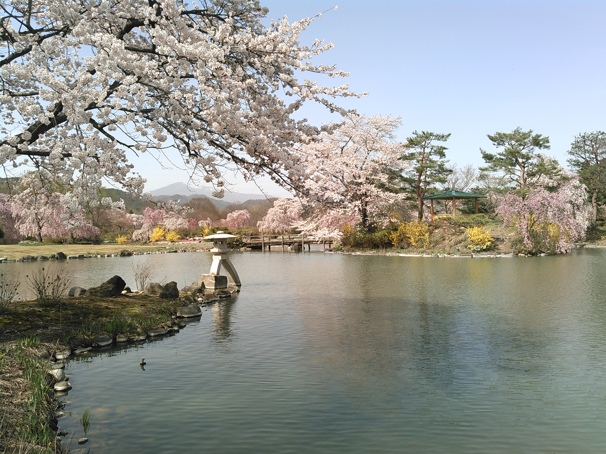 Cherry blossoms in Koriyama Ryokusuien